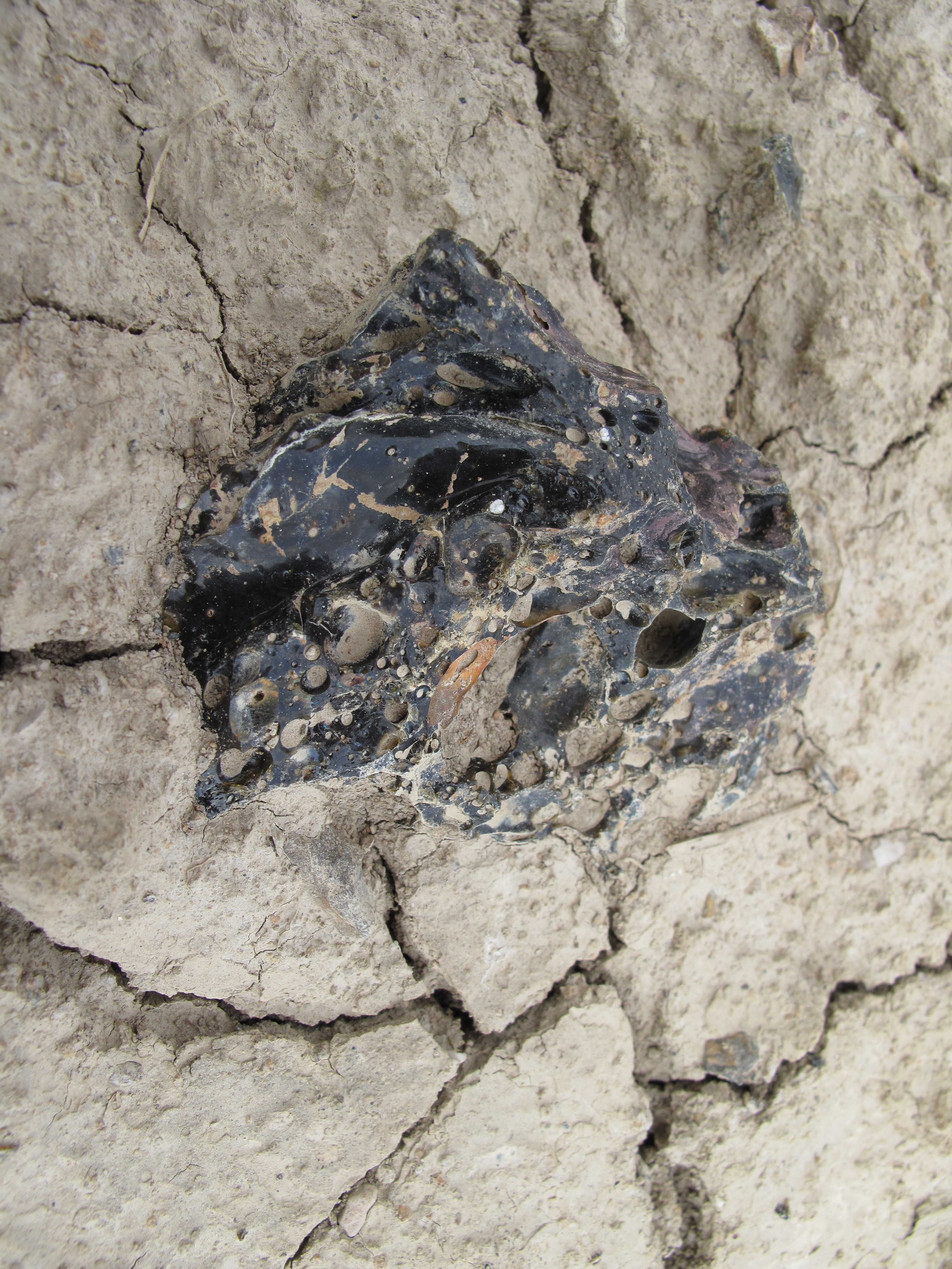 Slag (from former Osek ironworks, ?) in natural memorial Vosek, Rokycany District, Czech Republic.